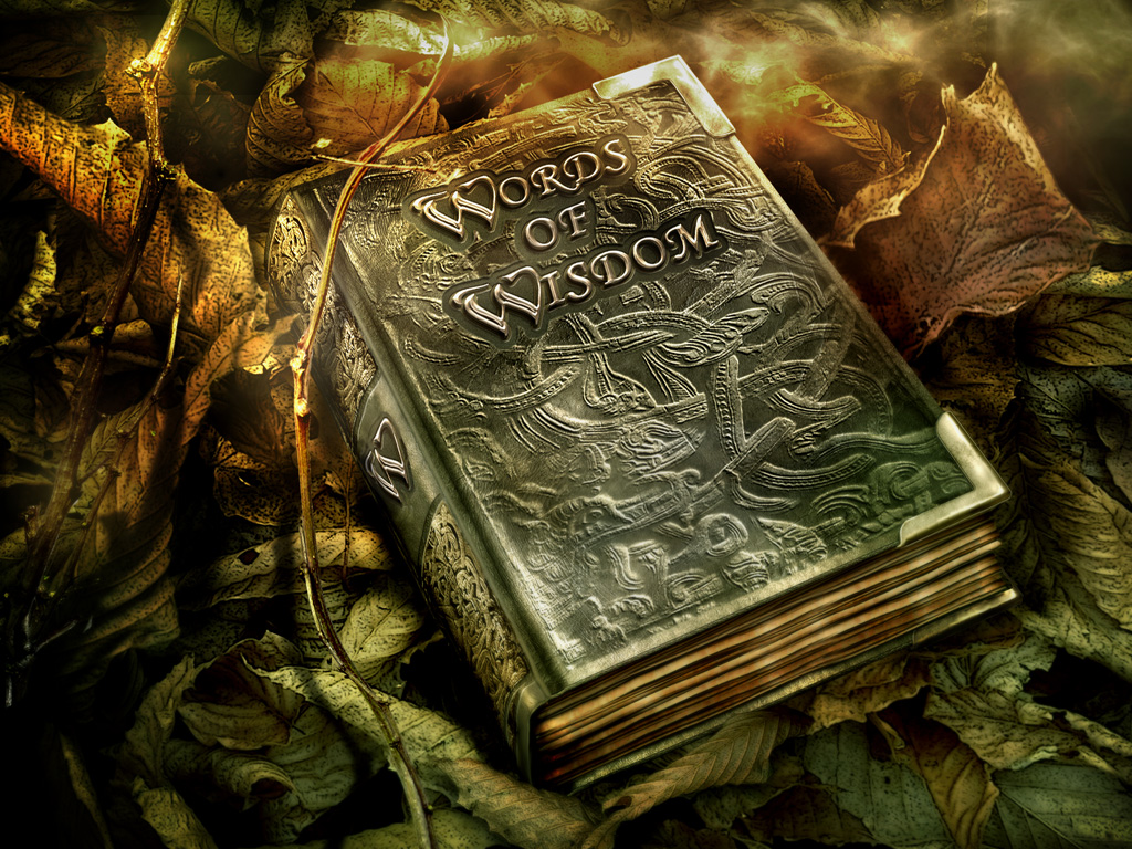 Inline cover of the album Words of Wisdom